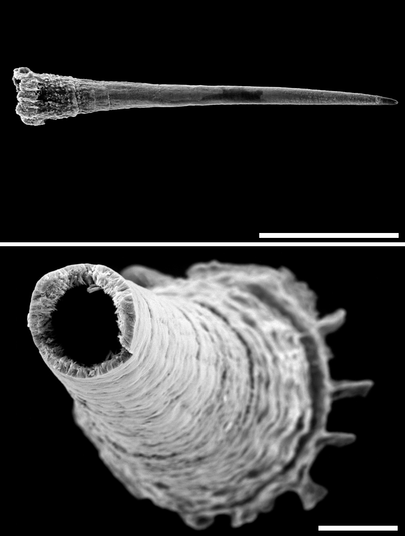 Scanning electron microscopic (SEM) images love-dart of Trichia hispida. Upper image is love dart from side view while the measure is 500 μm (0.5 mm). Lower image is cross-section while the measure is 50 μm.